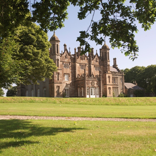 Home of The Earls of Antrim, situated in Glenarm, Co. Antrim, NI